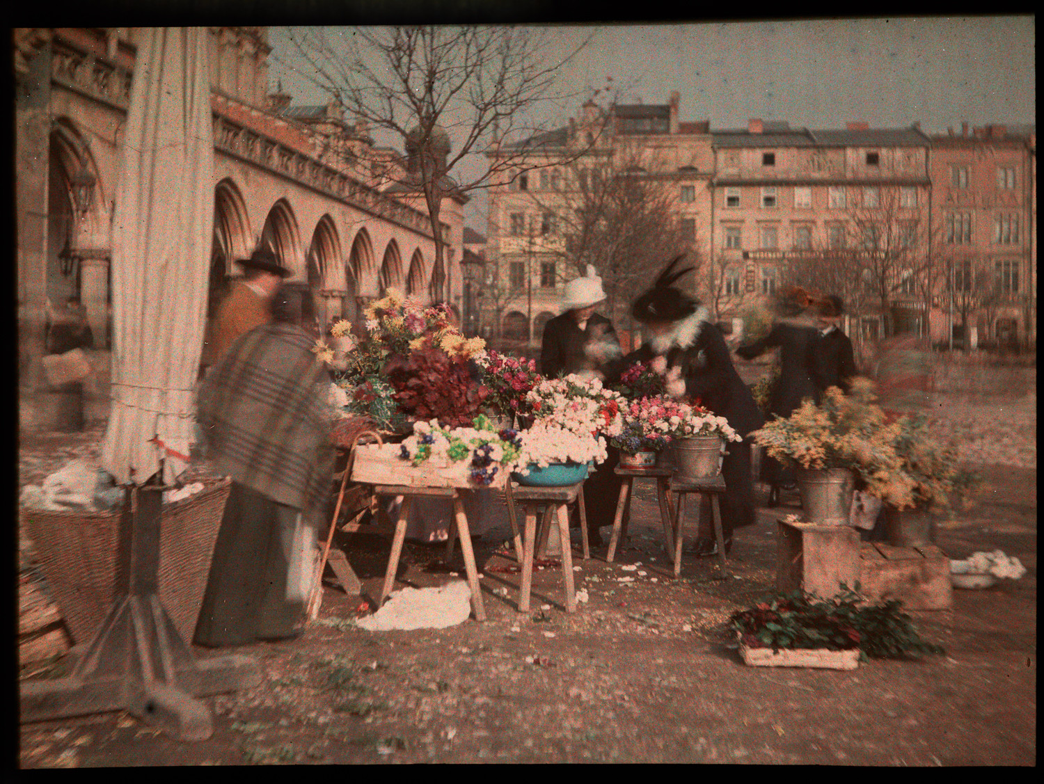 Main Market Square in Cracow, Poland. Street flower vendors. First Autochrome in Poland dated 1912. This Autochrome was not colorized.